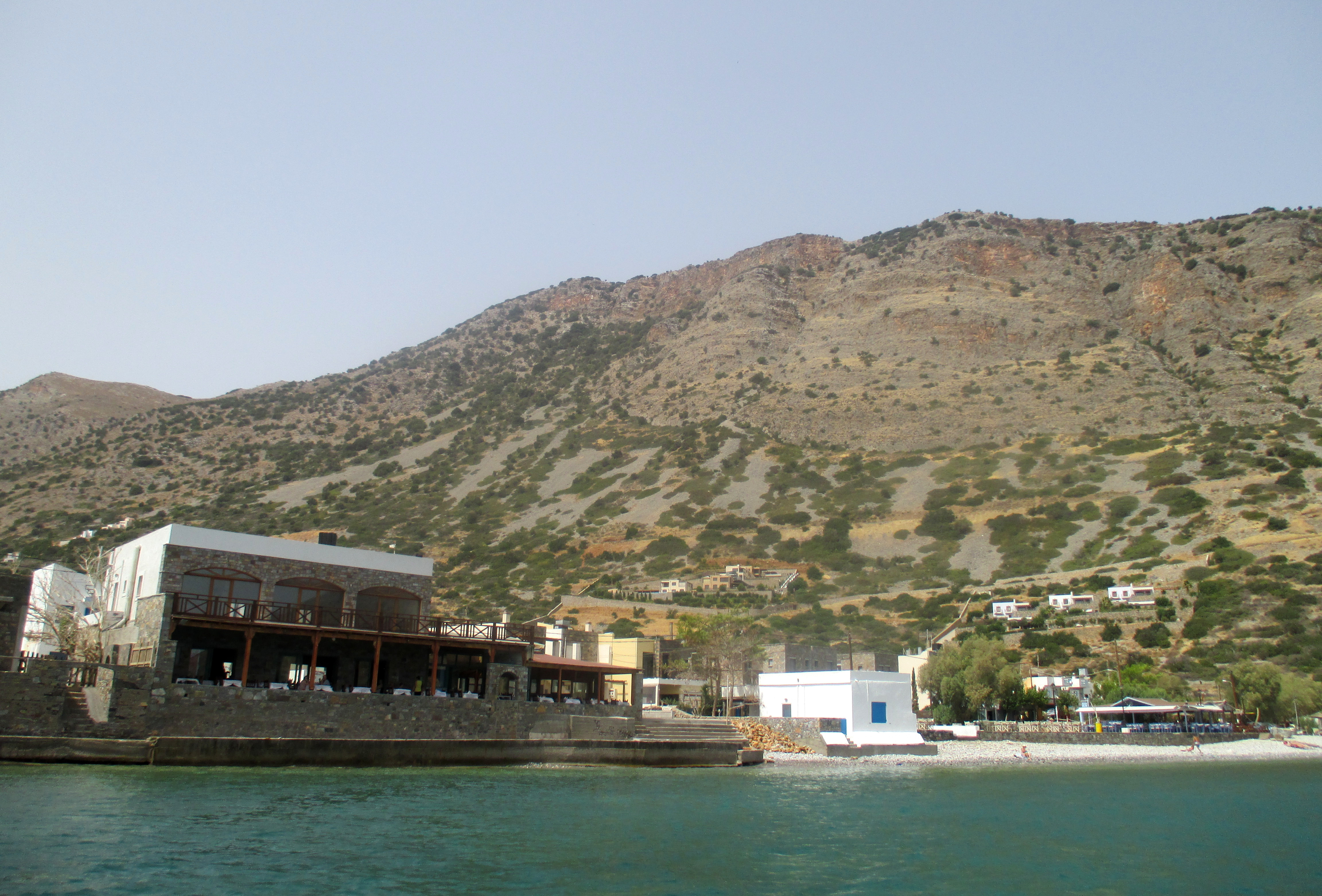 Plaka village, Lasithi, Crete, Greece.